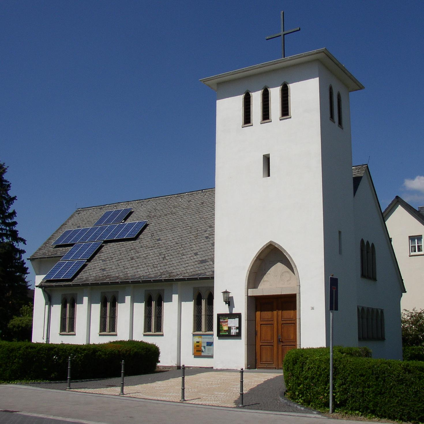 Protestant church in Sinzig in Rhineland-Palatinate, Germany